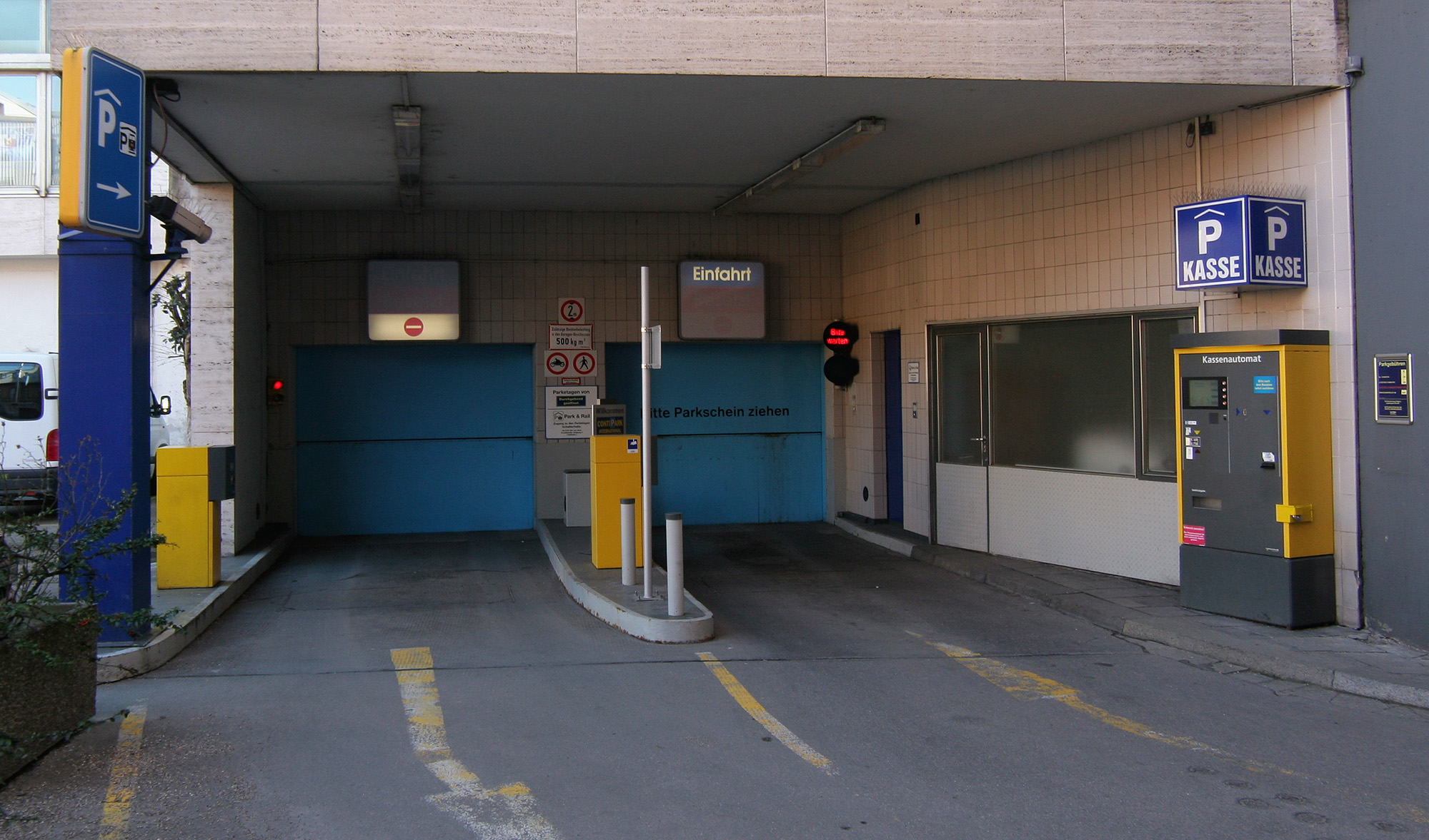 Vehicle lift in a Munich's multi-storey car park